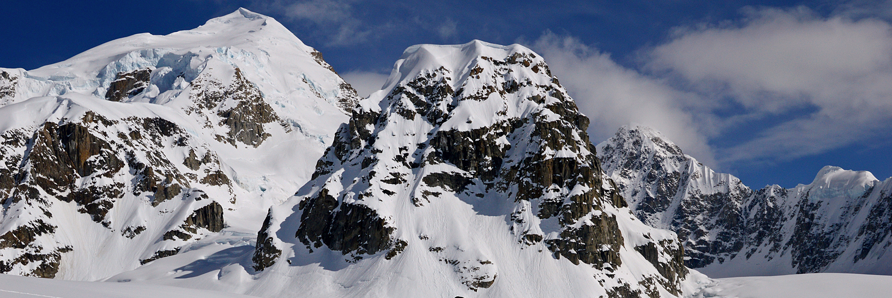 Radio Control Tower in Denali National Park in Alaska. (Army photo/John Pennell)